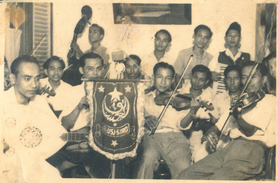 al-Usysyaaq is a gambus orchestra founded by Husein Aidid in 1947 in Pekojan, West Jakarta.